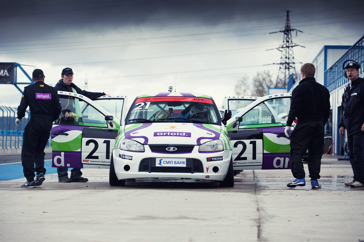 гонки